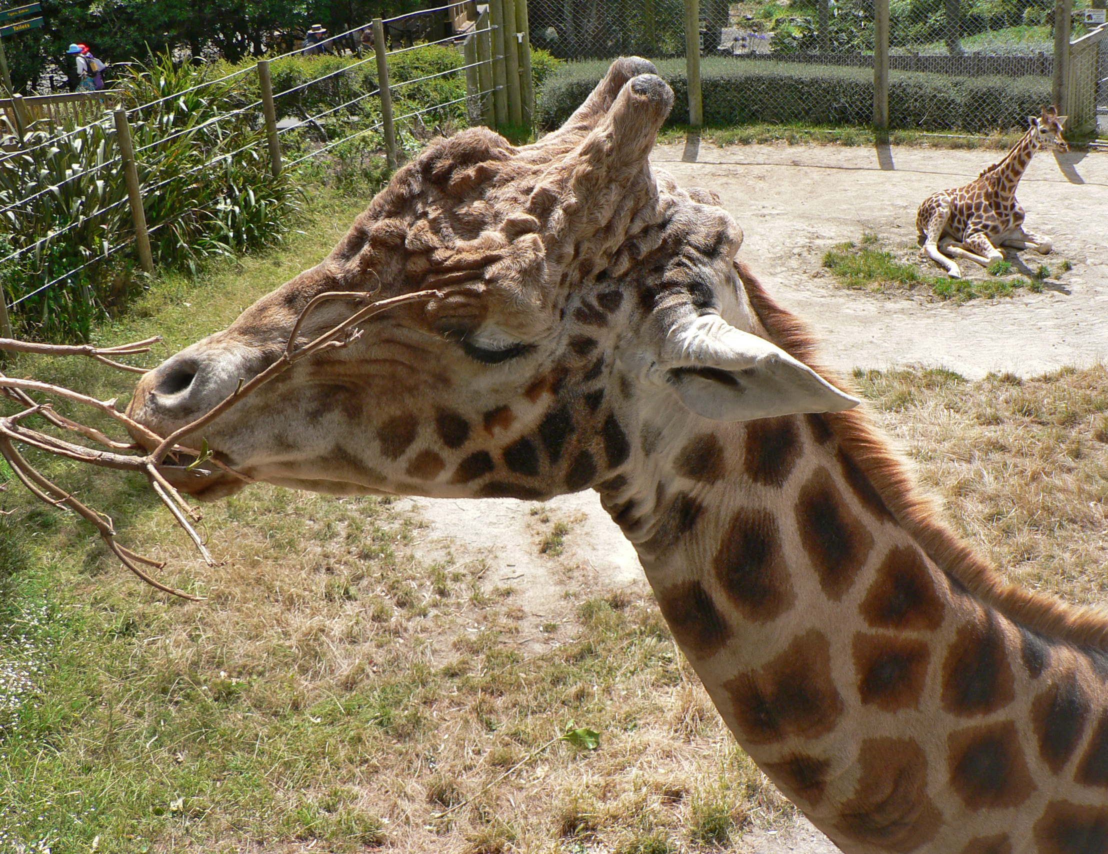 Two giraffes in the old giraffe enclosure at Wellington Zoo, New Zealand.